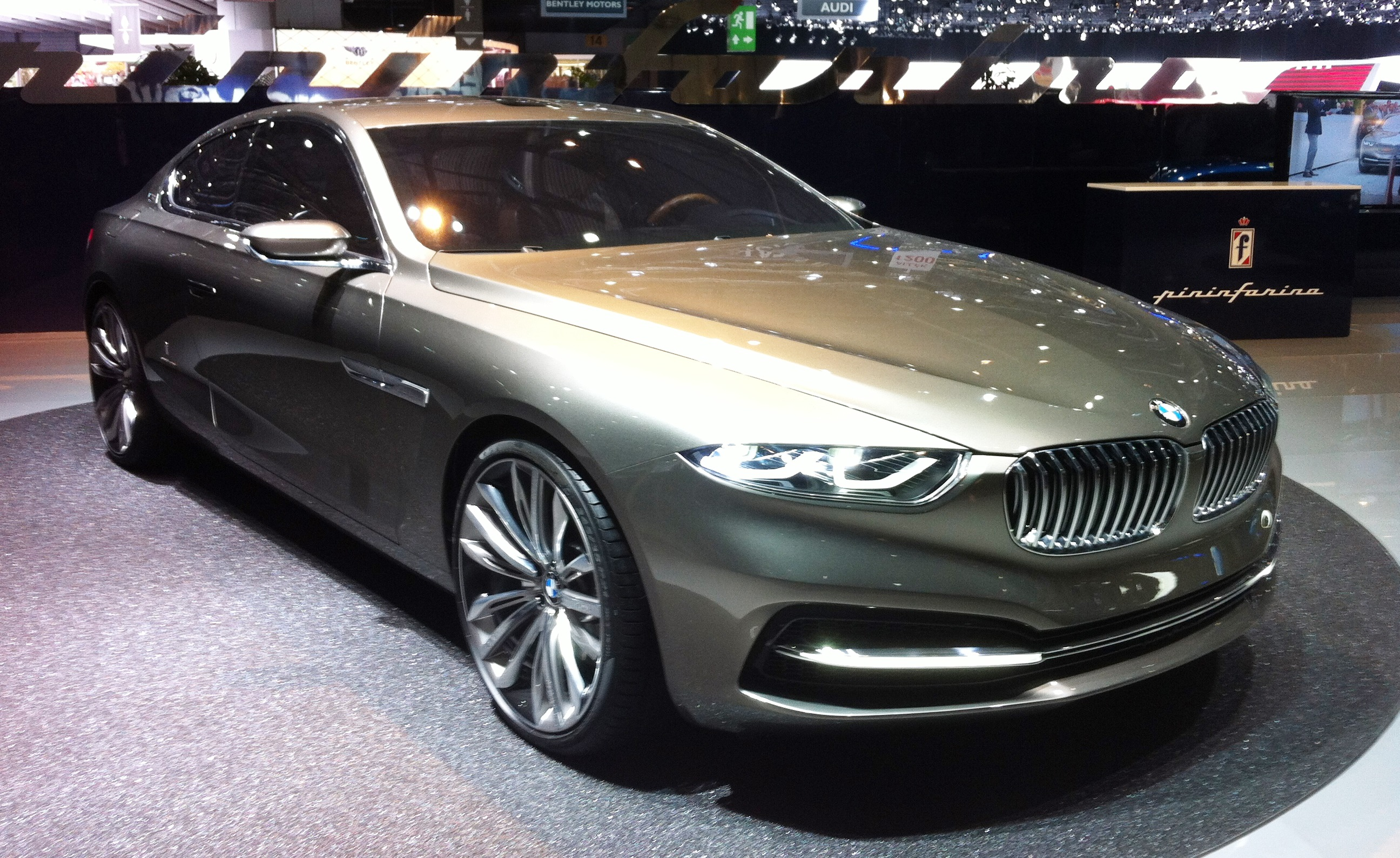 BMW Gran Lusso Coupé at Geneva Motor Show 2014